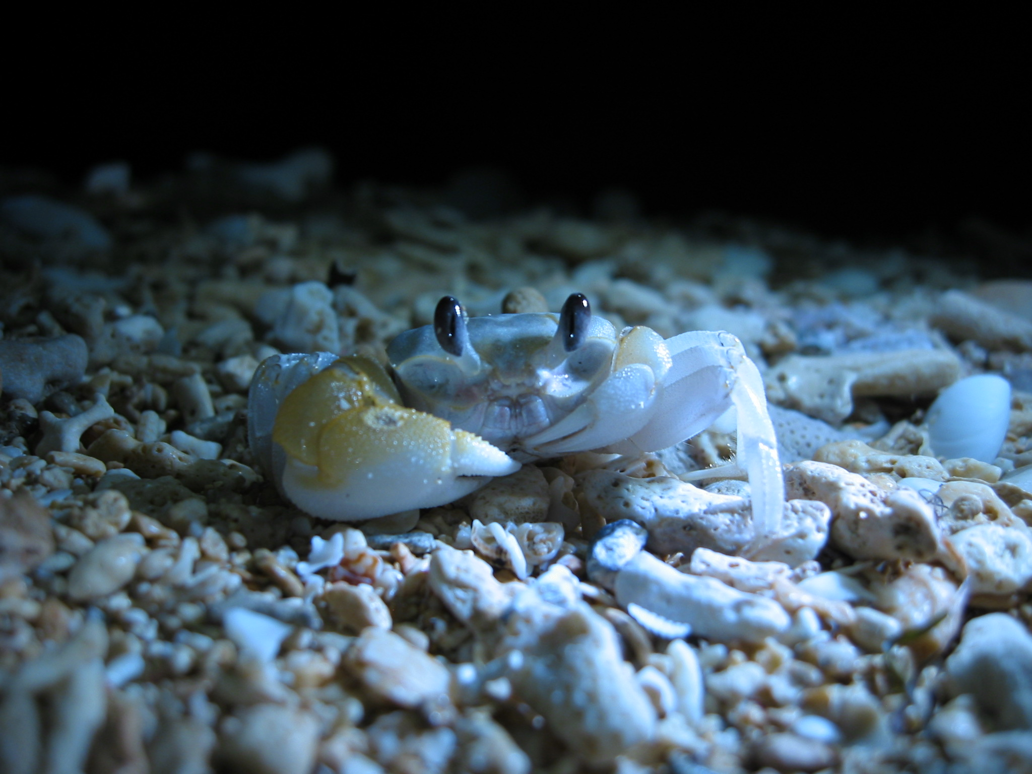 O. cordimanus Latreille, 1818. The photo was taken at Haemida beach, Iriomote island, Japan.